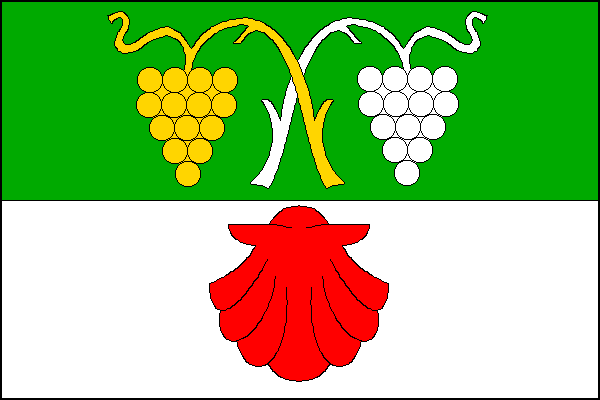 Municipal flag of Želetice village, Hodonín District, Czech Republic.